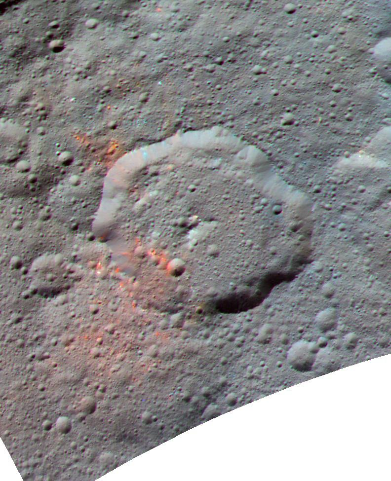 This enhanced color composite image, made with data from the framing camera aboard NASA's Dawn spacecraft, shows the area around Ernutet crater. The bright red portions appear redder with respect to the rest of Ceres. In a 2017 study in the journal Science, researchers from the Dawn science team found that these red areas around Ernutet are associated with evidence of organic material. Images taken using blue (440 nanometers), green (750 nanometers) and infrared (960 nanometers) spectral filters were combined to create the view. Ernutet Crater measures about 32 miles (52 kilometers) in diameter and is located in the northern hemisphere. It can also be seen in PIA20570. This image was published in a 2017 study in the journal Icarus. Dawn's mission is managed by JPL for NASA's Science Mission Directorate in Washington. Dawn is a project of the directorate's Discovery Program, managed by NASA's Marshall Space Flight Center in Huntsville, Alabama. UCLA is responsible for overall Dawn mission science. Orbital ATK, Inc., in Dulles, Virginia, designed and built the spacecraft. The German Aerospace Center, the Max Planck Institute for Solar System Research, the Italian Space Agency and the Italian National Astrophysical Institute are international partners on the mission team. For a complete list of mission participants, For more information about the Dawn mission, visit